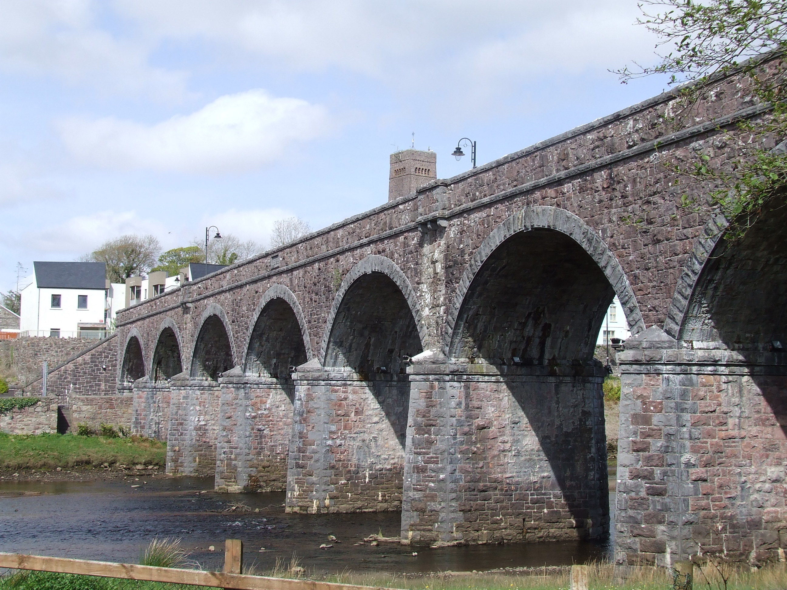 "Seven Arches Bridge", a former railway bridge in Newport, County Mayo, Ireland. Easter Sunday, 2011. Stone built.